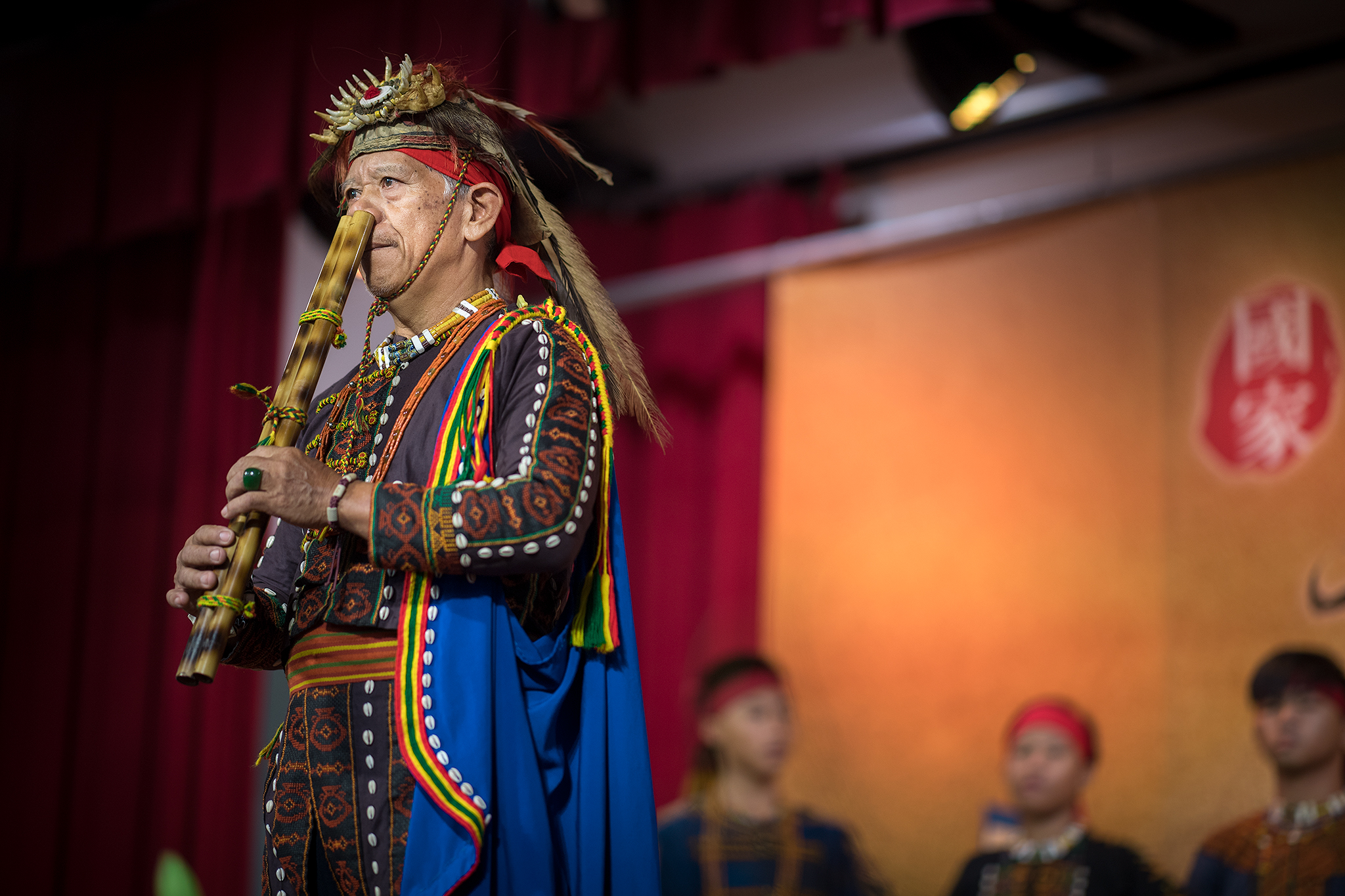 授權方式及範圍：中華民國總統府│政府網站資料開放宣告 Authorization Method & Scope: Office of the President, Republic of China (Taiwan) | Government Website Open Information Announcement